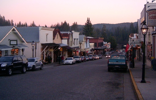 Downtown Nevada City, California. I, Moncrief, took this photo myself and release it into the public domain.